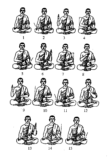 Mahasati Meditation is a form of moving meditation. In Mahasati Meditation the practitioner moves rhythmically with their awareness open to the movement of body and mind. The movements are simple and repetitious, yet Mahasati Meditation is a powerful, deep, and advanced method for self-realization. This technique was discovered by Luangpor Teean, a Thai monk. After Luangpor Teean' passing, Luangpor Thong--one of his leading disciple-- is in charge of disseminating his teacher's meditation technique.